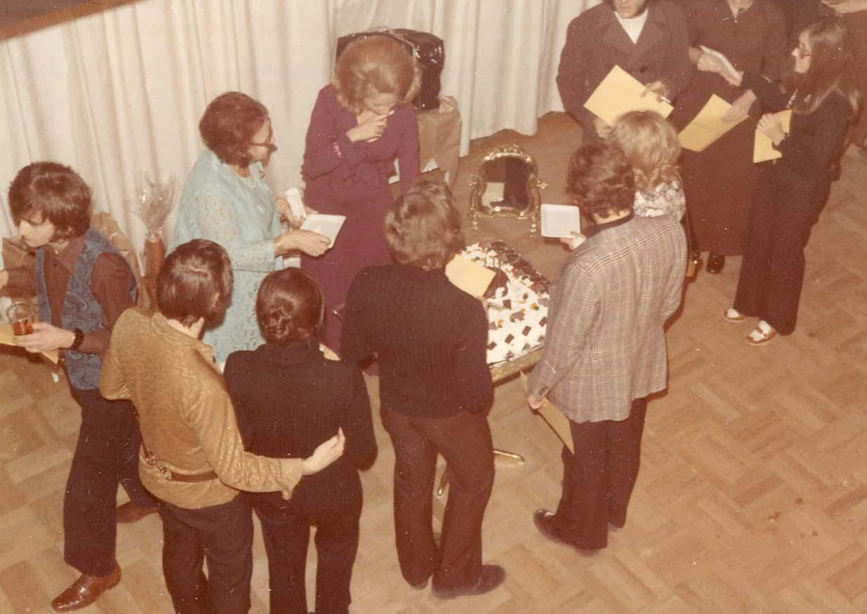 Swedish singer Mats Olin (far left, brother of Lena Olin) attends 21st birthday party of Mia Adolphson att her disco; far right Eva Söderqvist & (in top edge of photo) Lars JacobPlace: Club Mia, Döbelnsgatan 3, Stockholm, Sweden